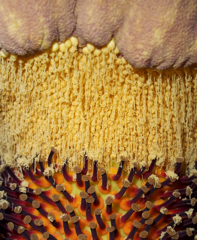 The inside of the Amorphophallus Titanum.